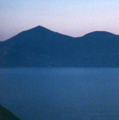 Highest Peak on Milos taken by my own camera.